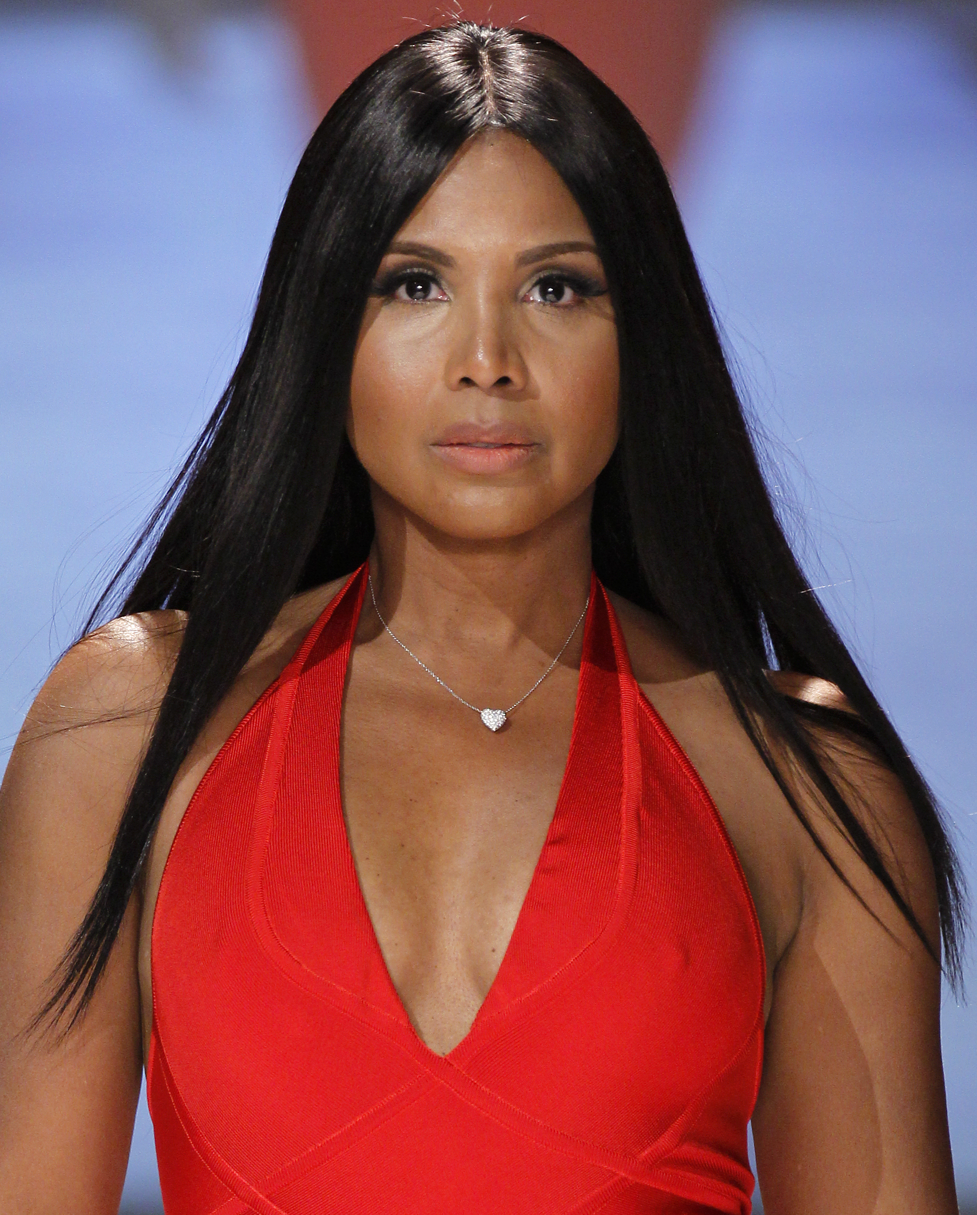 Toni Braxton at the The Heart Truth Red Dress Collection Fashion Show 2013.